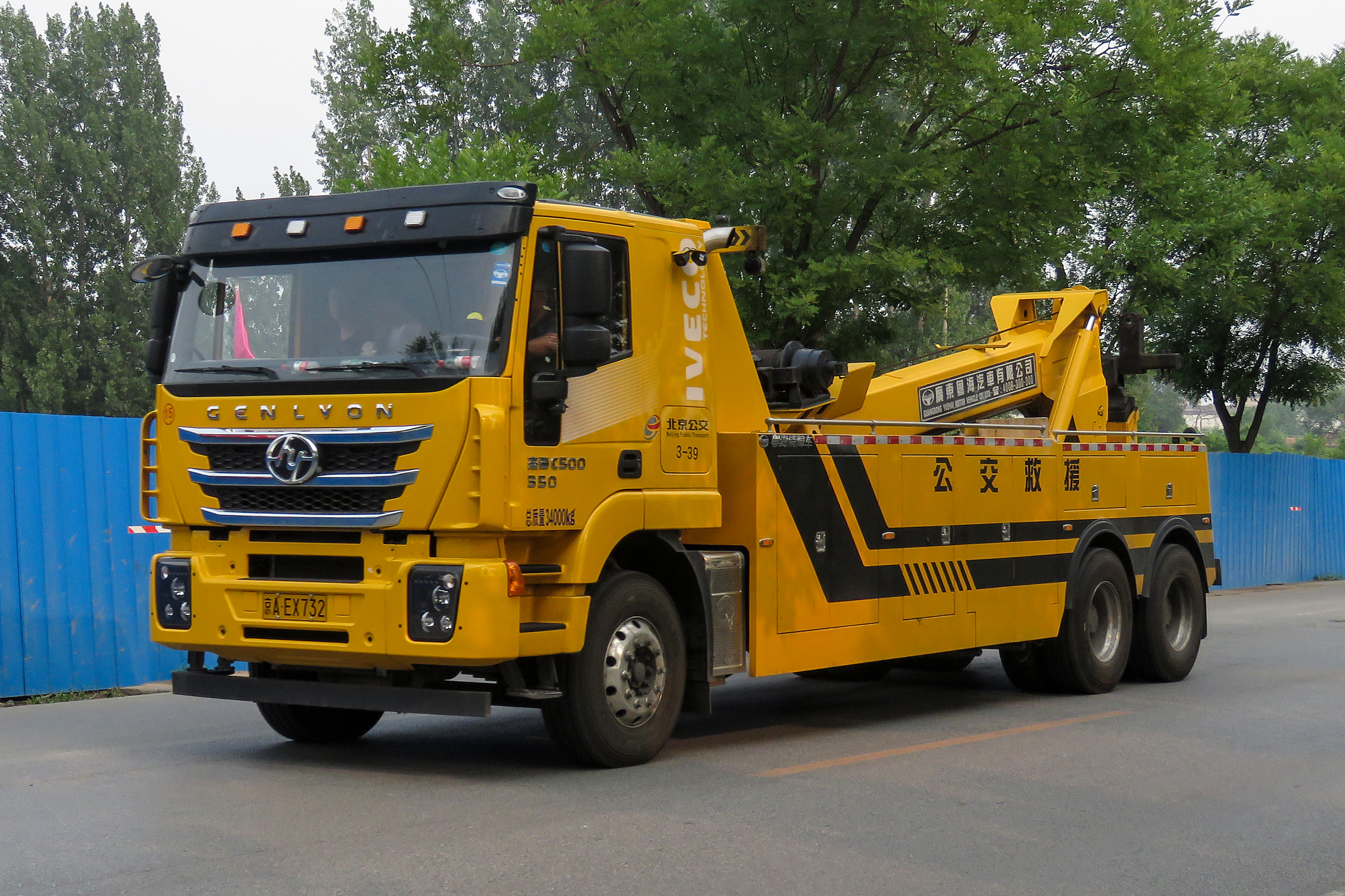 Ooh, a Genlyon recovery truck!